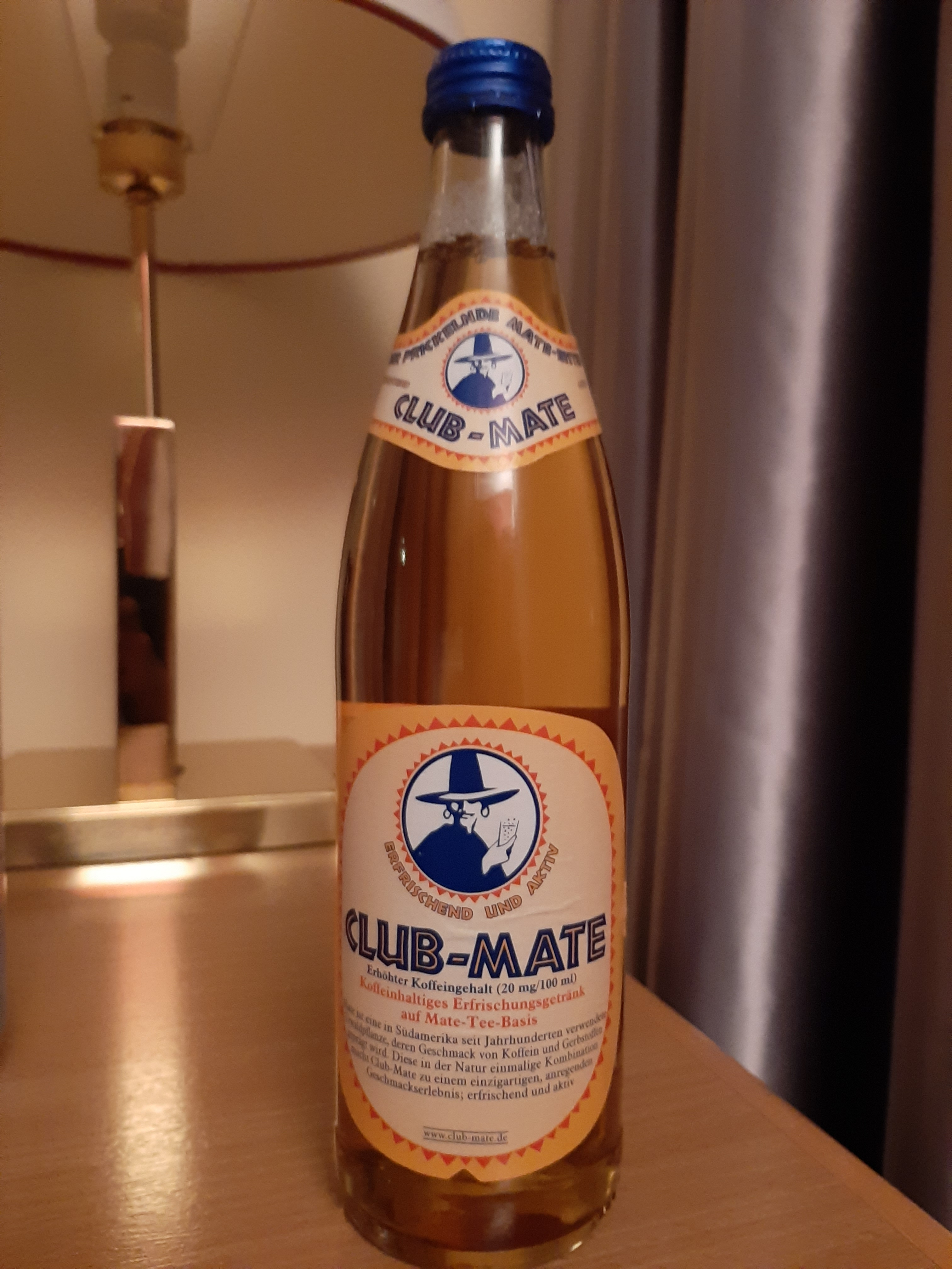 Berlin, Germany